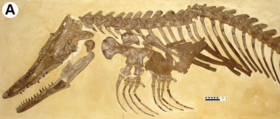 PLoS ONE 6 (11): e27343.